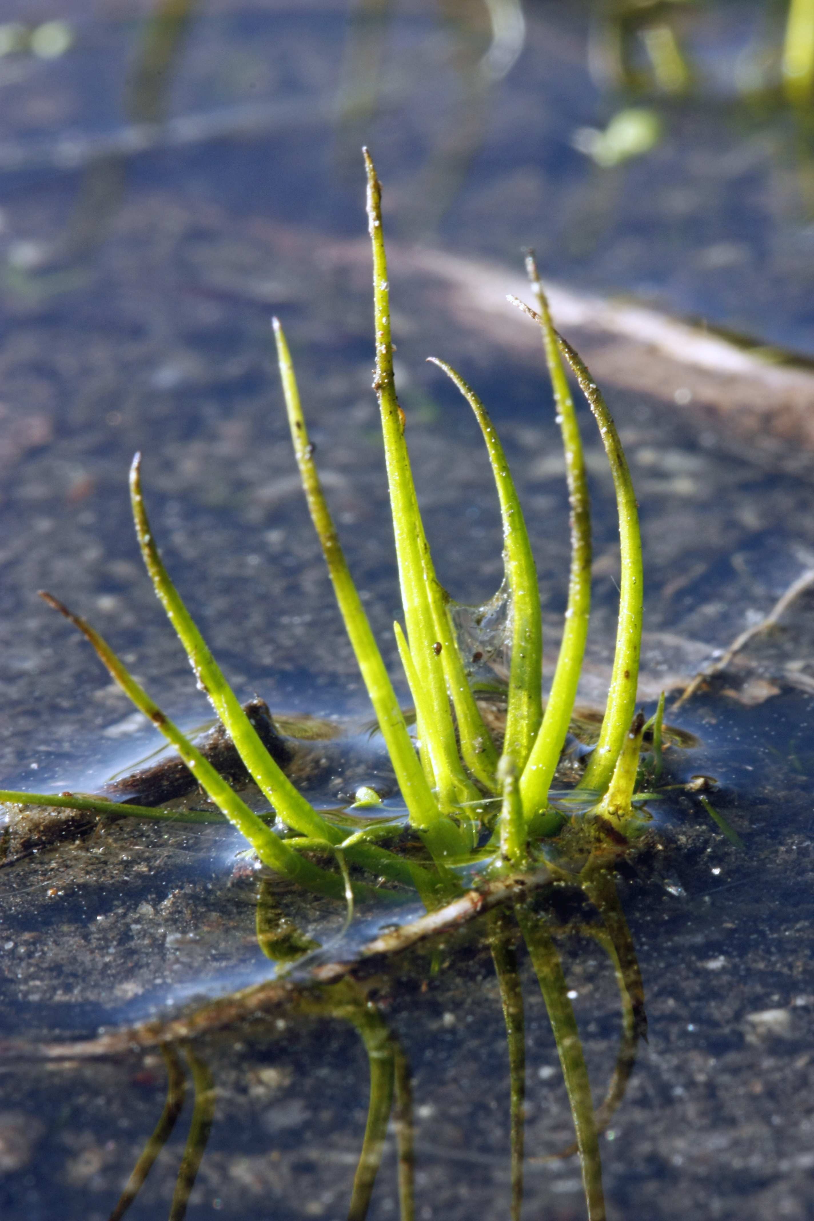 Closeup of Black-spored Quillwort taken in a granite pool on top of Arabia Mountain, GA.